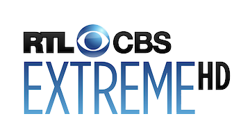 Logo of RTL CBS Extreme HD